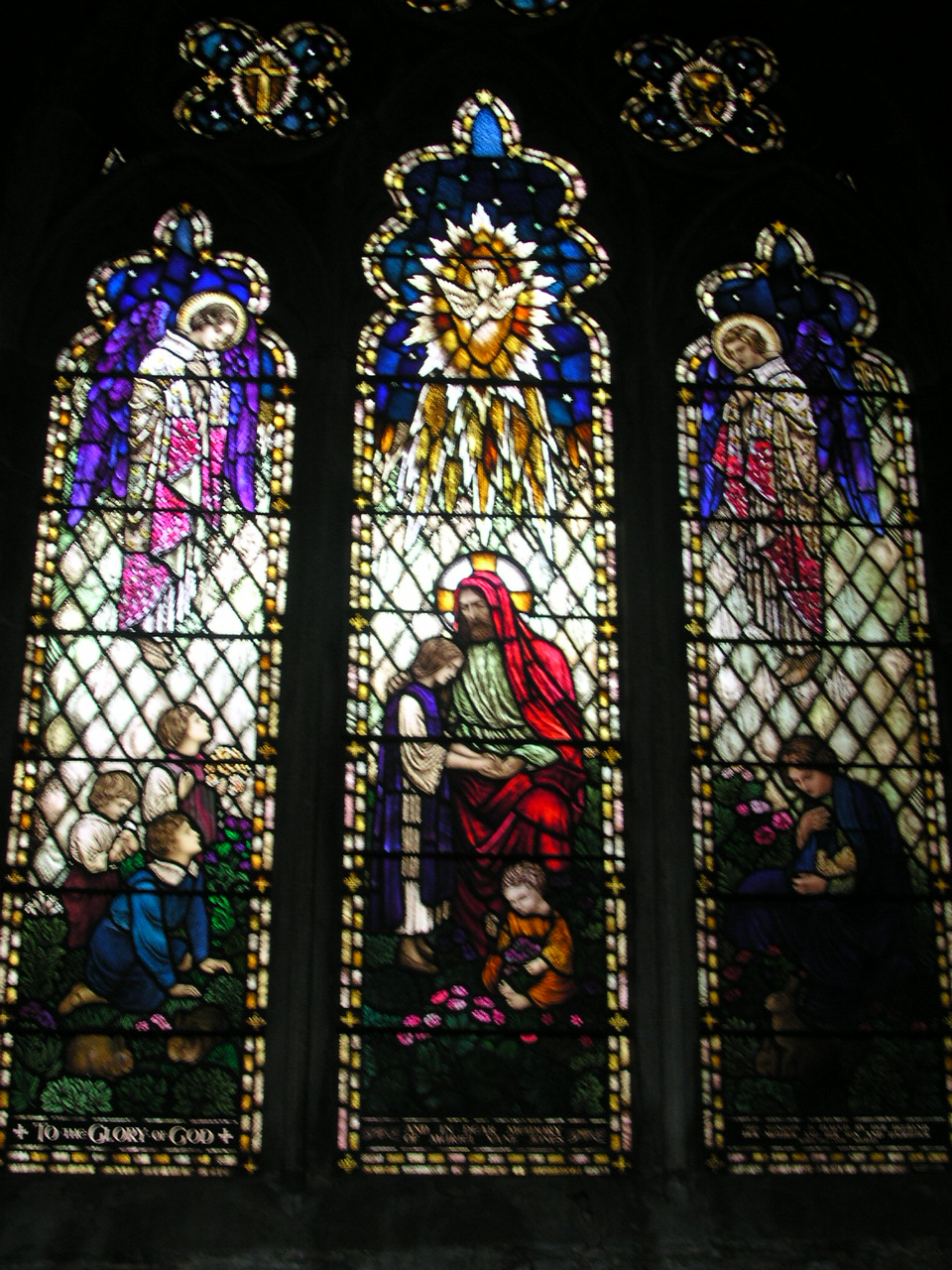 Window in the Church of England parish church of SS Peter and Paul, Deddington, Oxfordshire, England, with stained glass by A J Davies